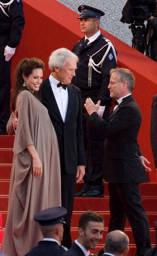 Angelina Jolie and Clint Eastwood on the red carpet of the 2008 Cannes Film Festival for their movie Changeling (at that time untitled The Exchange)